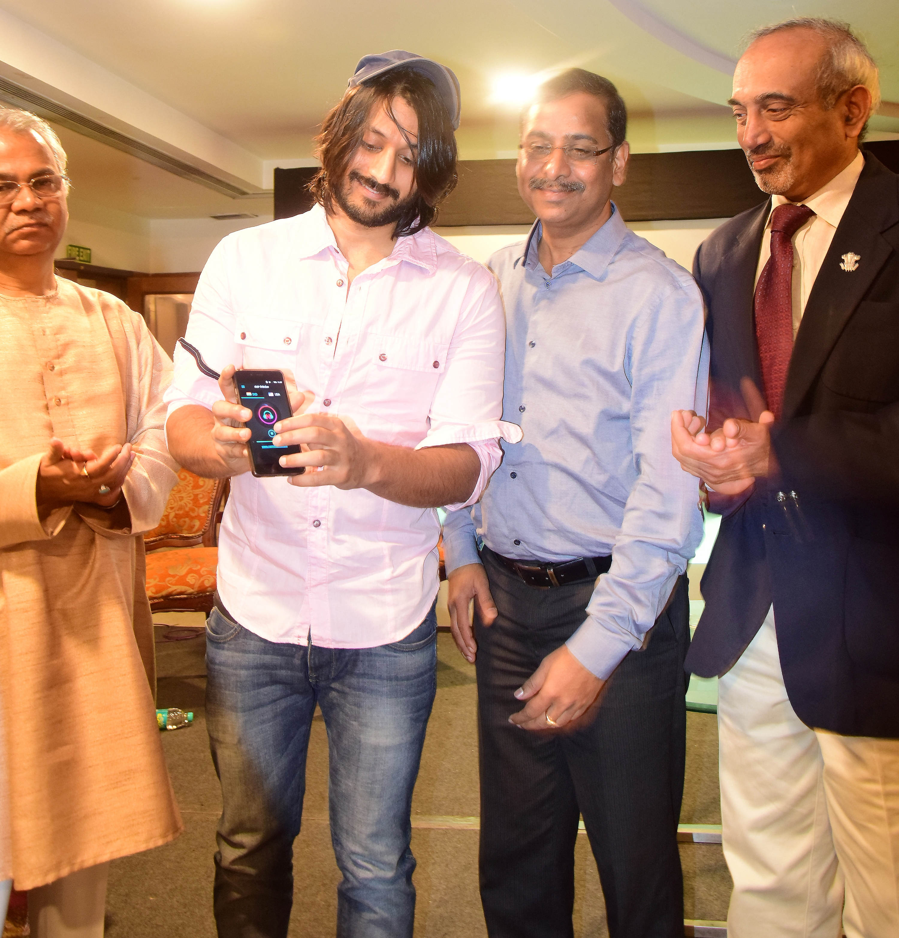 official launch of nammradio by actor chetan kumar on 28th Feb 2016